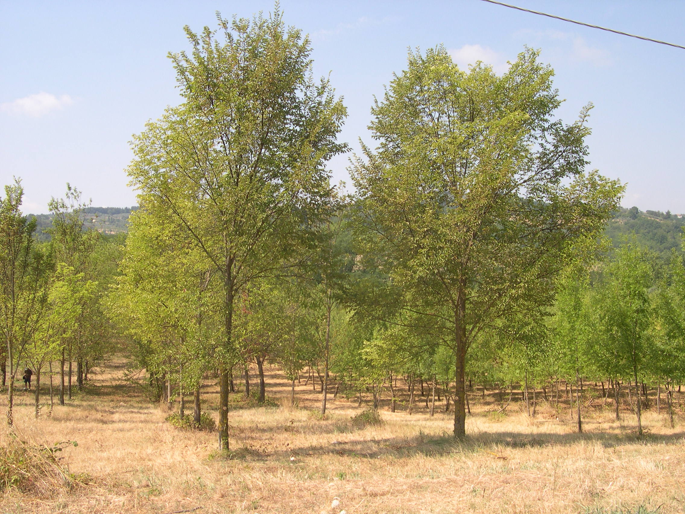 Photo from author's archive.